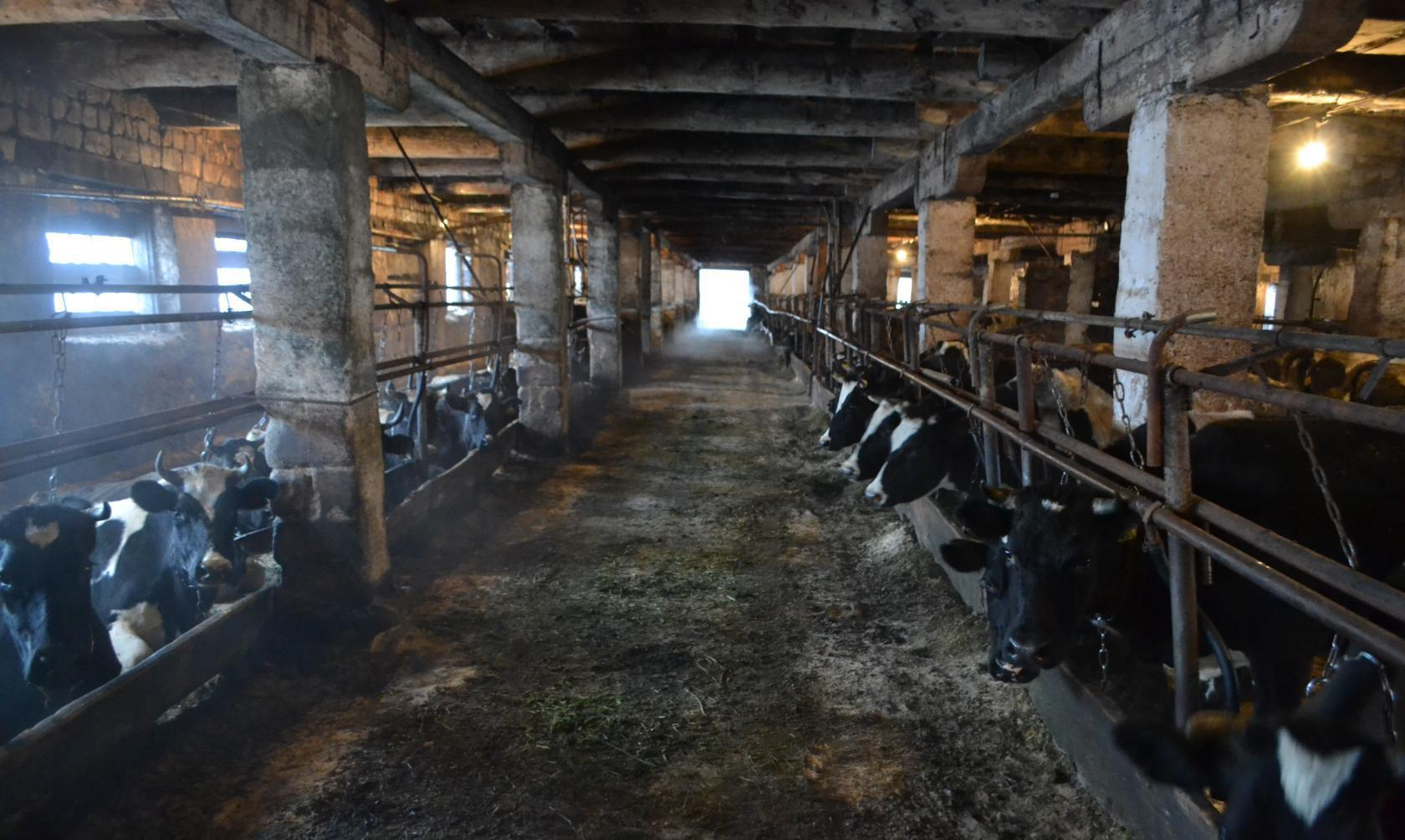 Russia. Taschkinova (Nyazepetrovsky rayon)